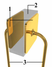 Home made computer graphics showing the principles behind the construction of a capacitor. Drawn with the program "Persistence of Vision Raytracer".